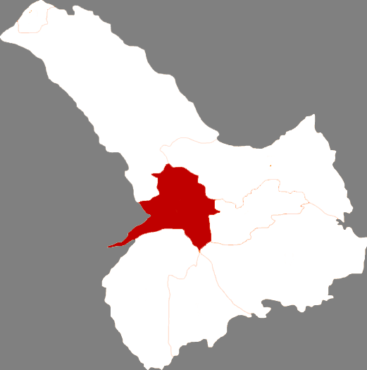 Locator map of Kailu County in Tongliao, Inner Mongolia, China